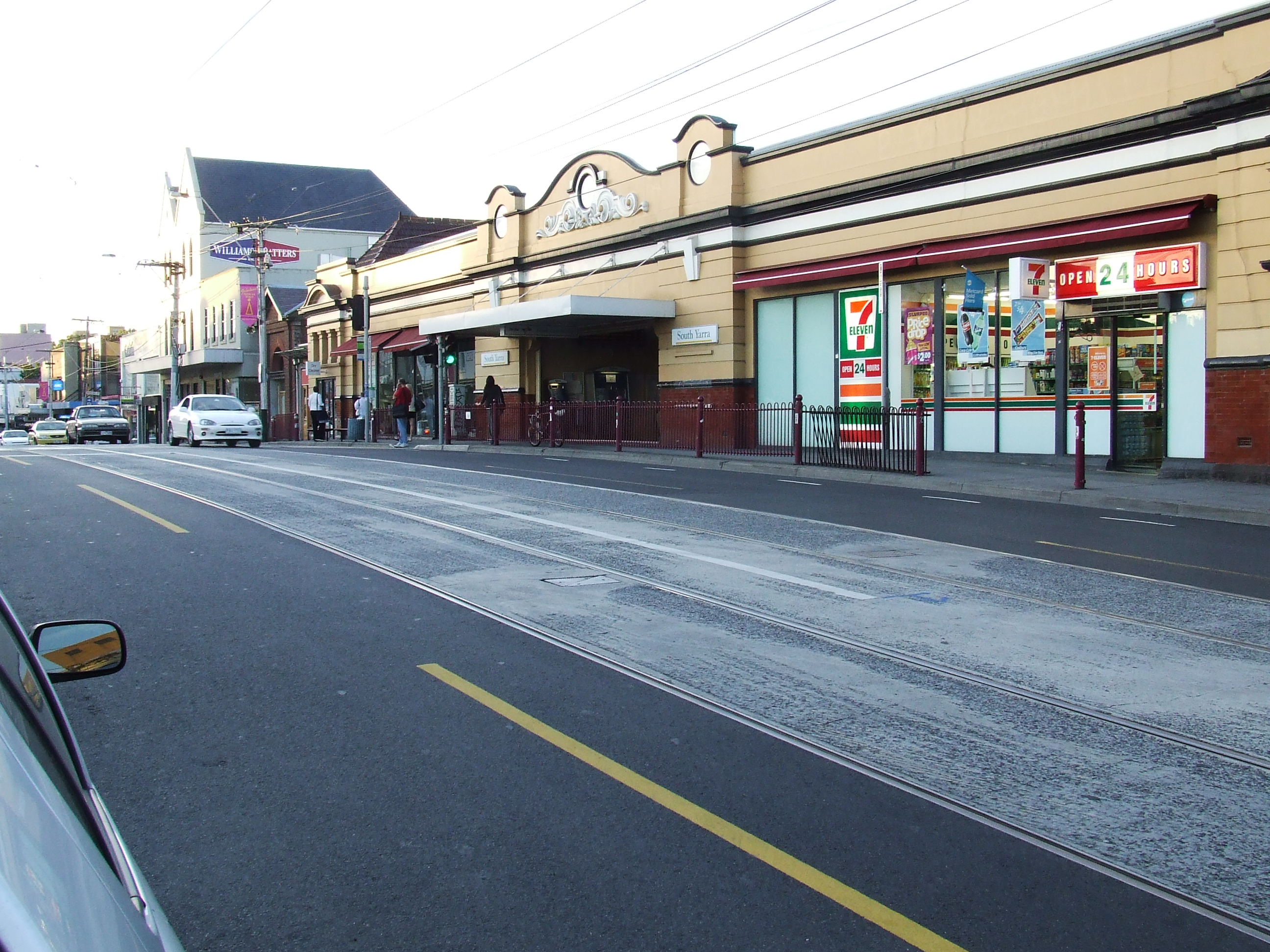 A photo of the entrance to South Yarra railway station, Melbourne.